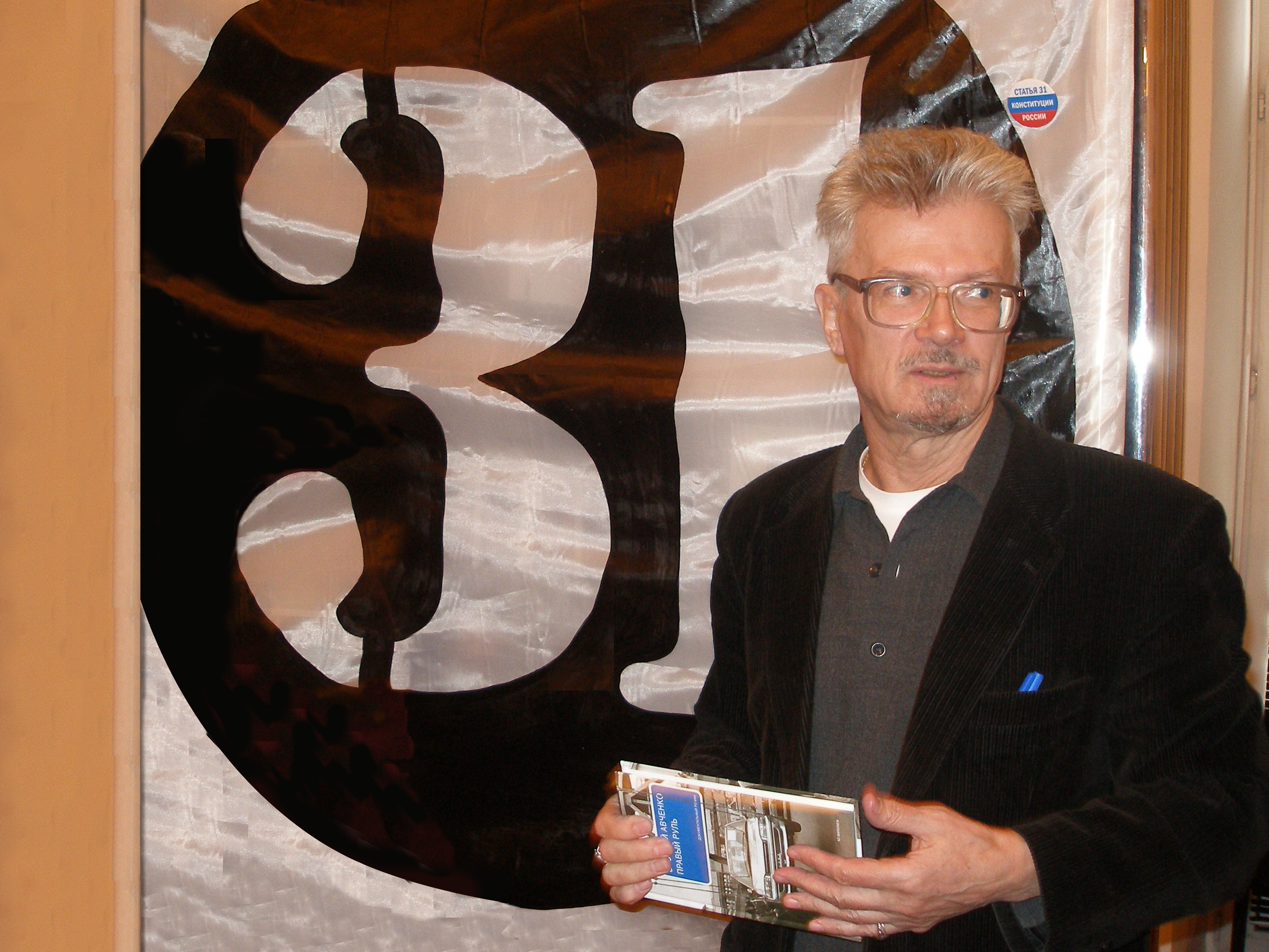 Eduard Limonov at the conference «Strategy-31». The Andrei Sakharov Museum and Public Center, Moscow.